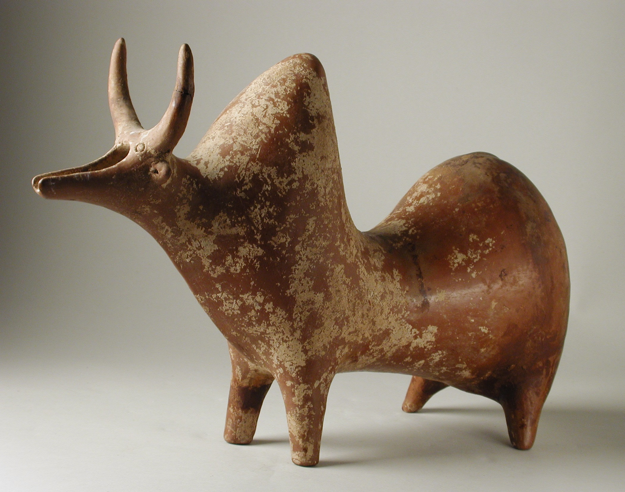 Amlash, 10th-8th century B.C. Sculpture Terra cotta Length: 13 13/16 in. (35.1 cm) The Phil Berg Collection (M.71.73.19) Art of the Ancient Near East